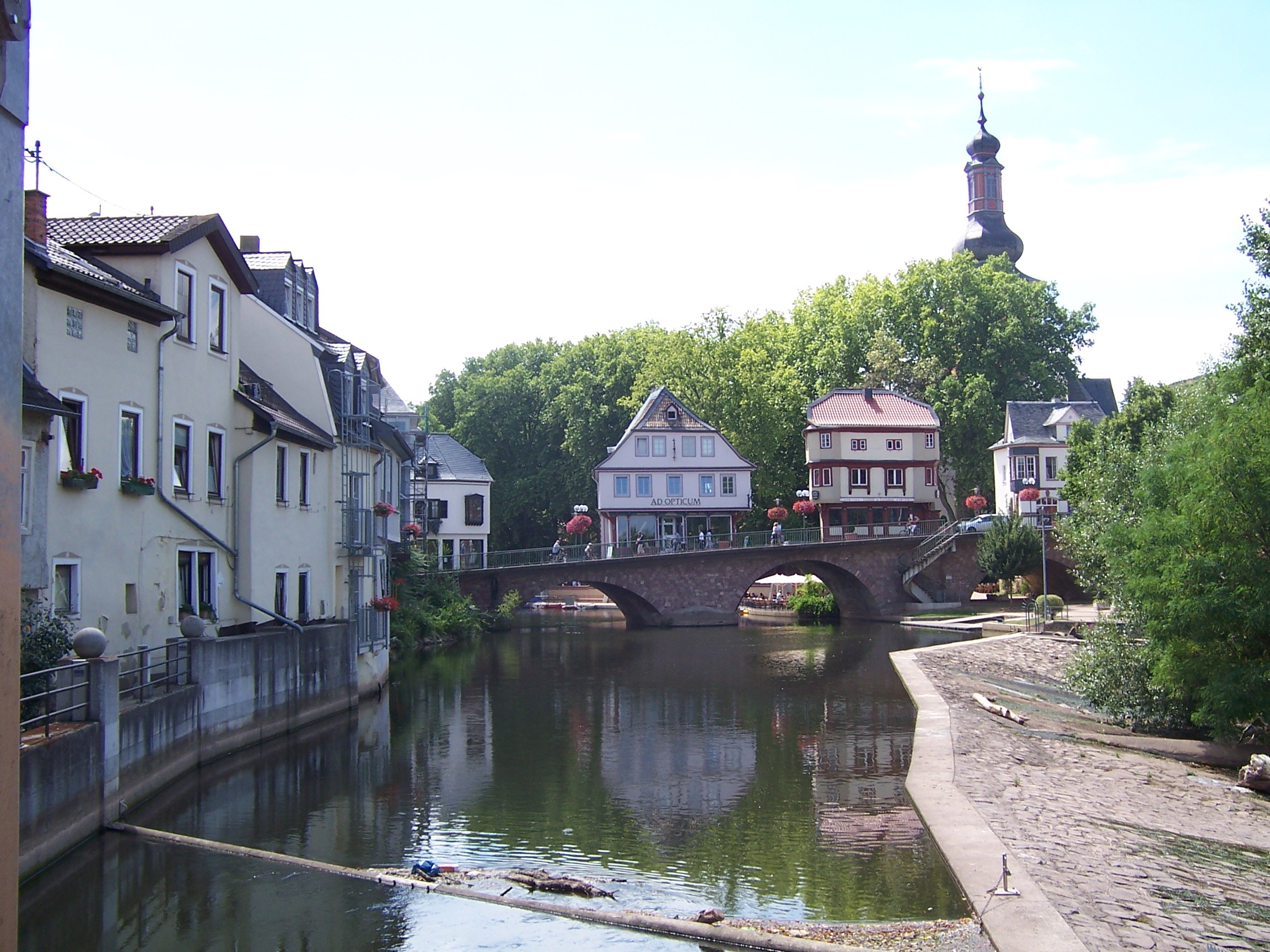 Bridge houses in Bad Kreuznach, Germany